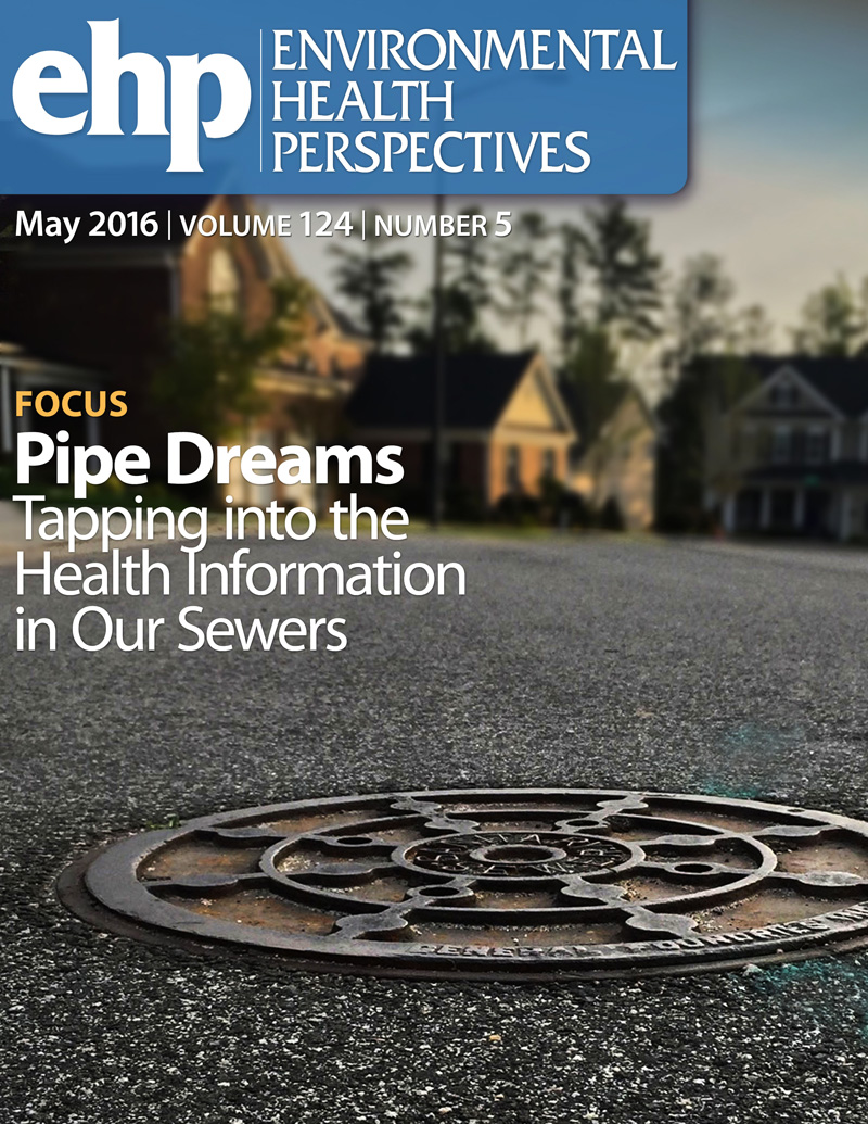 EHP May 2016 Cover